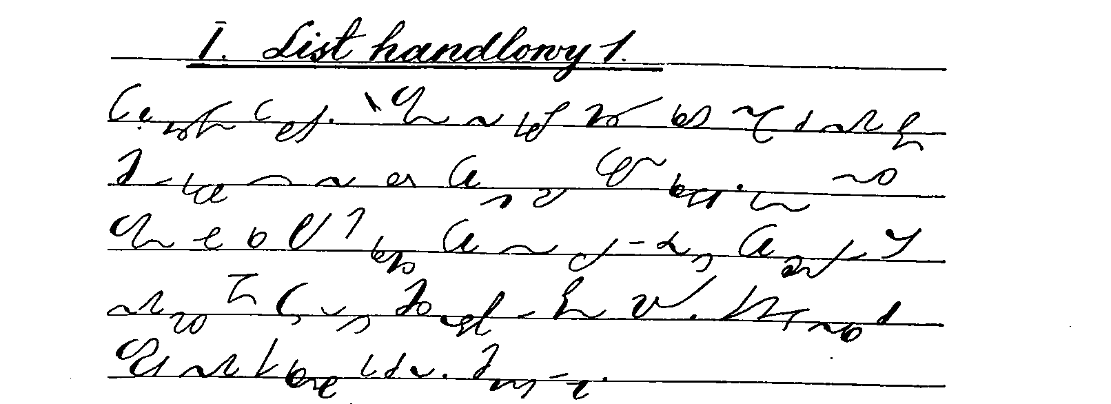 Example of Stolze-Guminski Shorthand system (business letter)